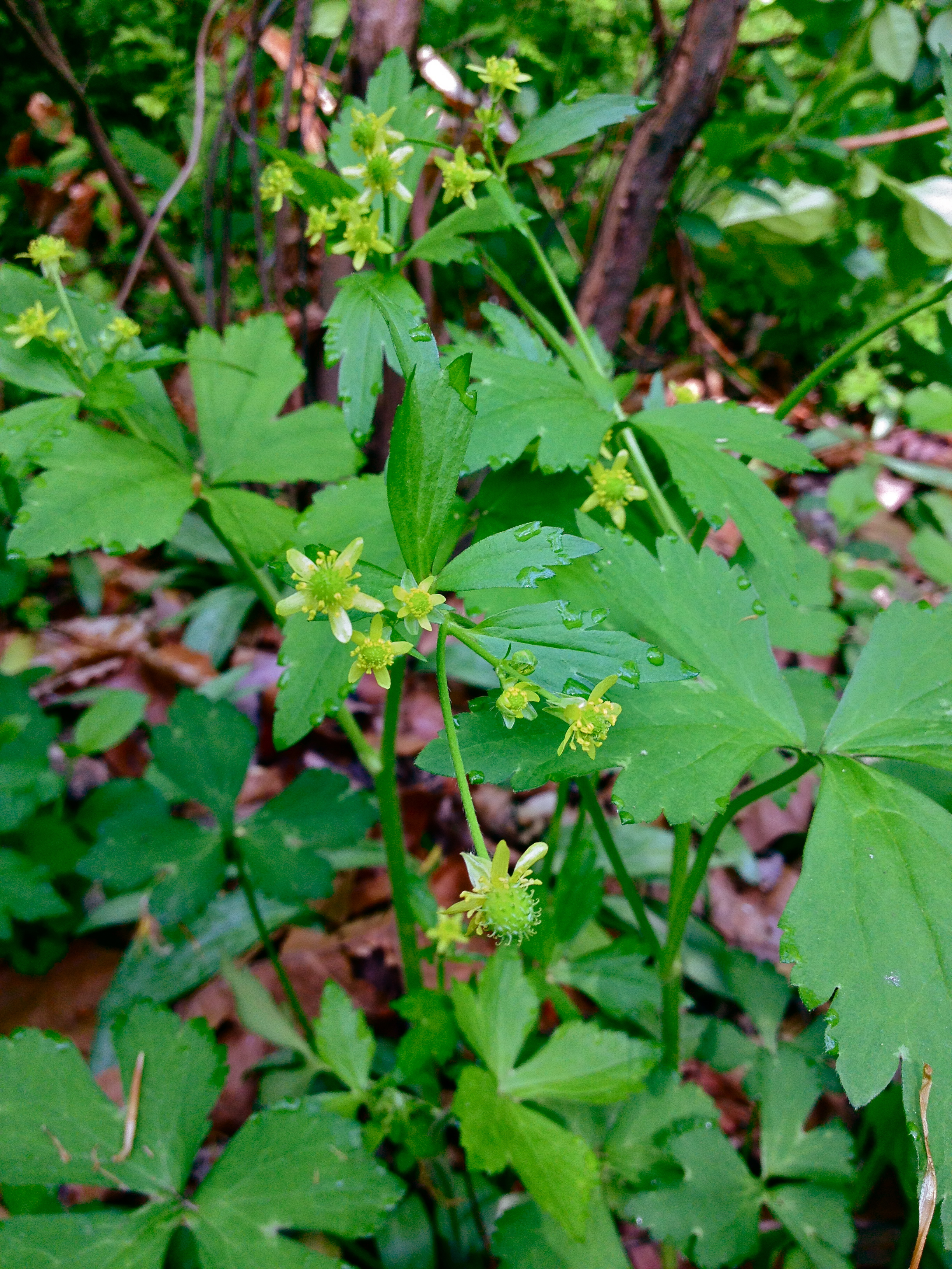 Photo of Ranunculus recurvatus in flower. This is a native plant growing wild in Scotts Run Nature Preserve, Fairfax county Virginia, USA. This species is a member of the Ranunculaceae family.